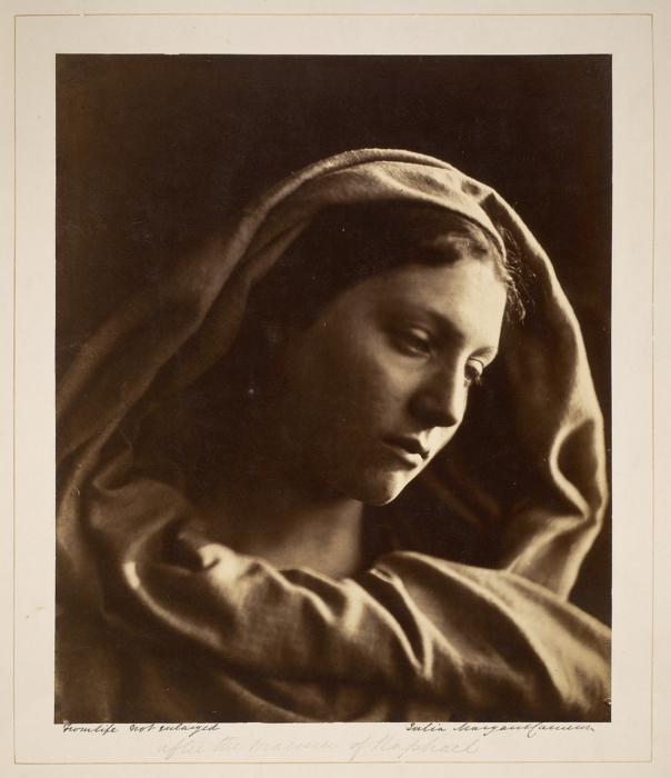 "'Mary Mother' (Mary Hillier)," albumen print, by the British photographer Julia Margaret Cameron. 33.655 cm x 27.94 cm (13 1/4 in. x 11 in.). Courtesy of the Yale University Art Gallery, Yale University, New Haven, Conn.